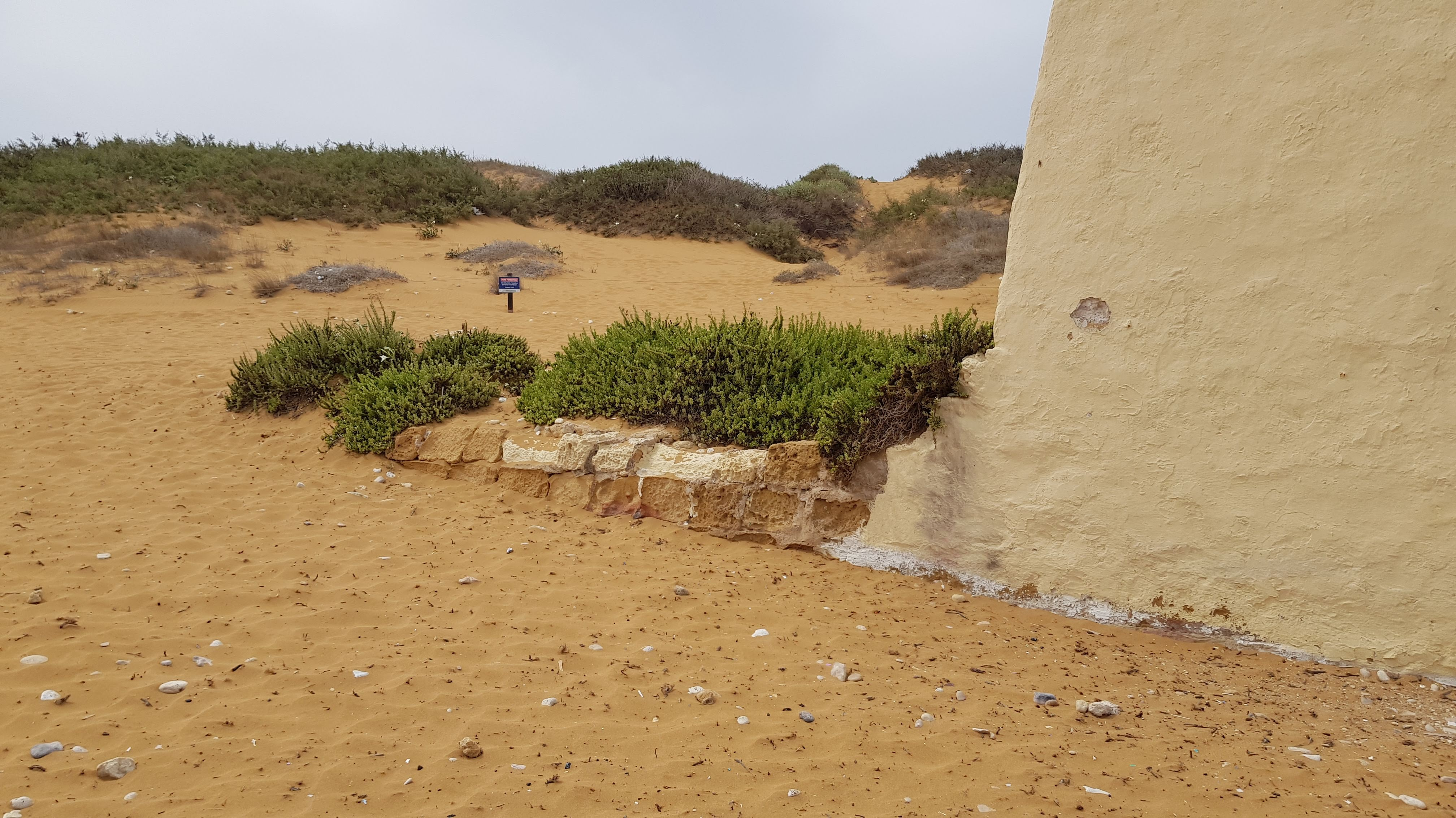 Ruins of Ramla Redoubt in Ramla Bay, Gozo This media is about Maltese cultural property with inventory number 1414.